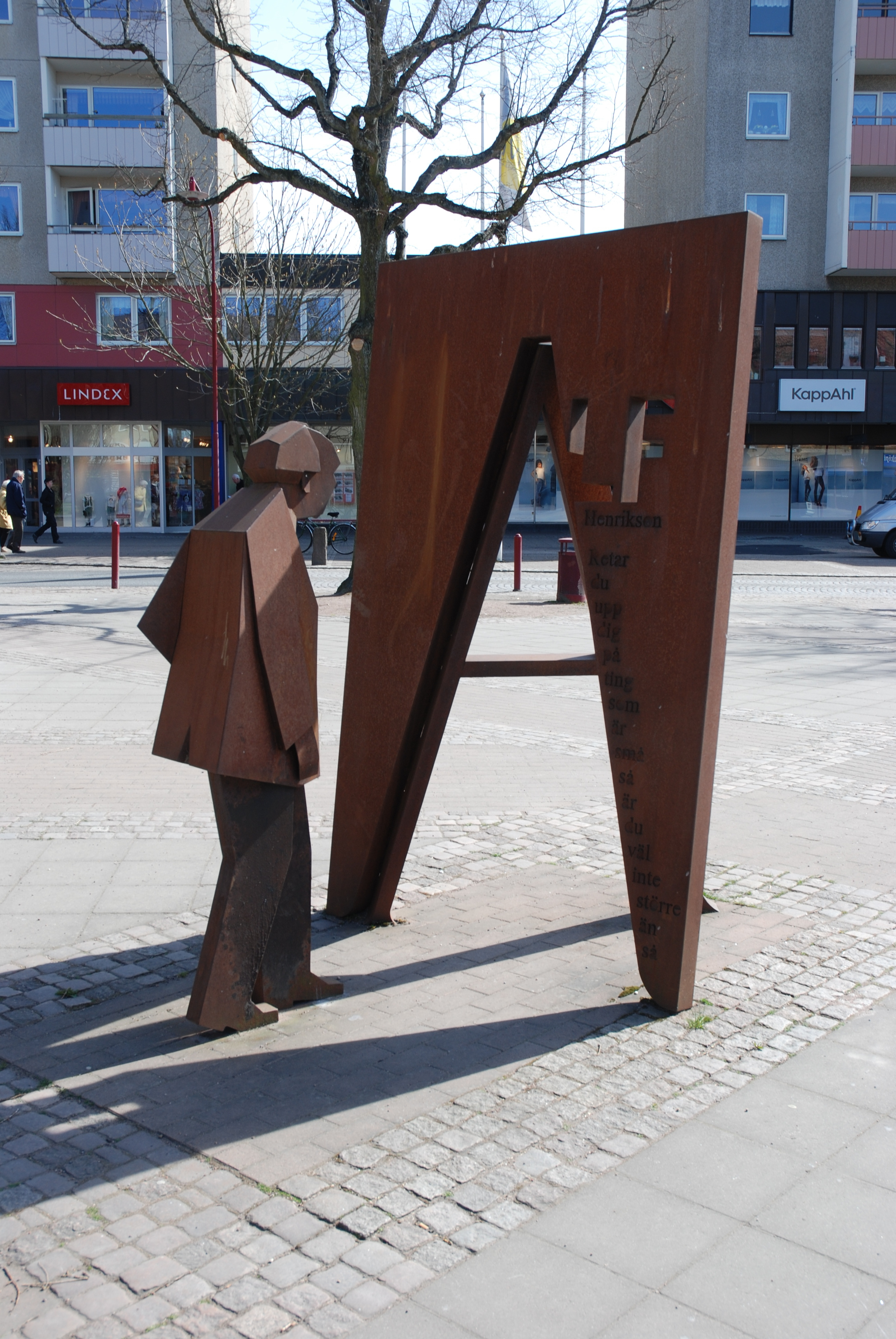 Tomas Qvarsebo´s Vägen genom A (The route through A), corten steel, Huskvarna, Sweden